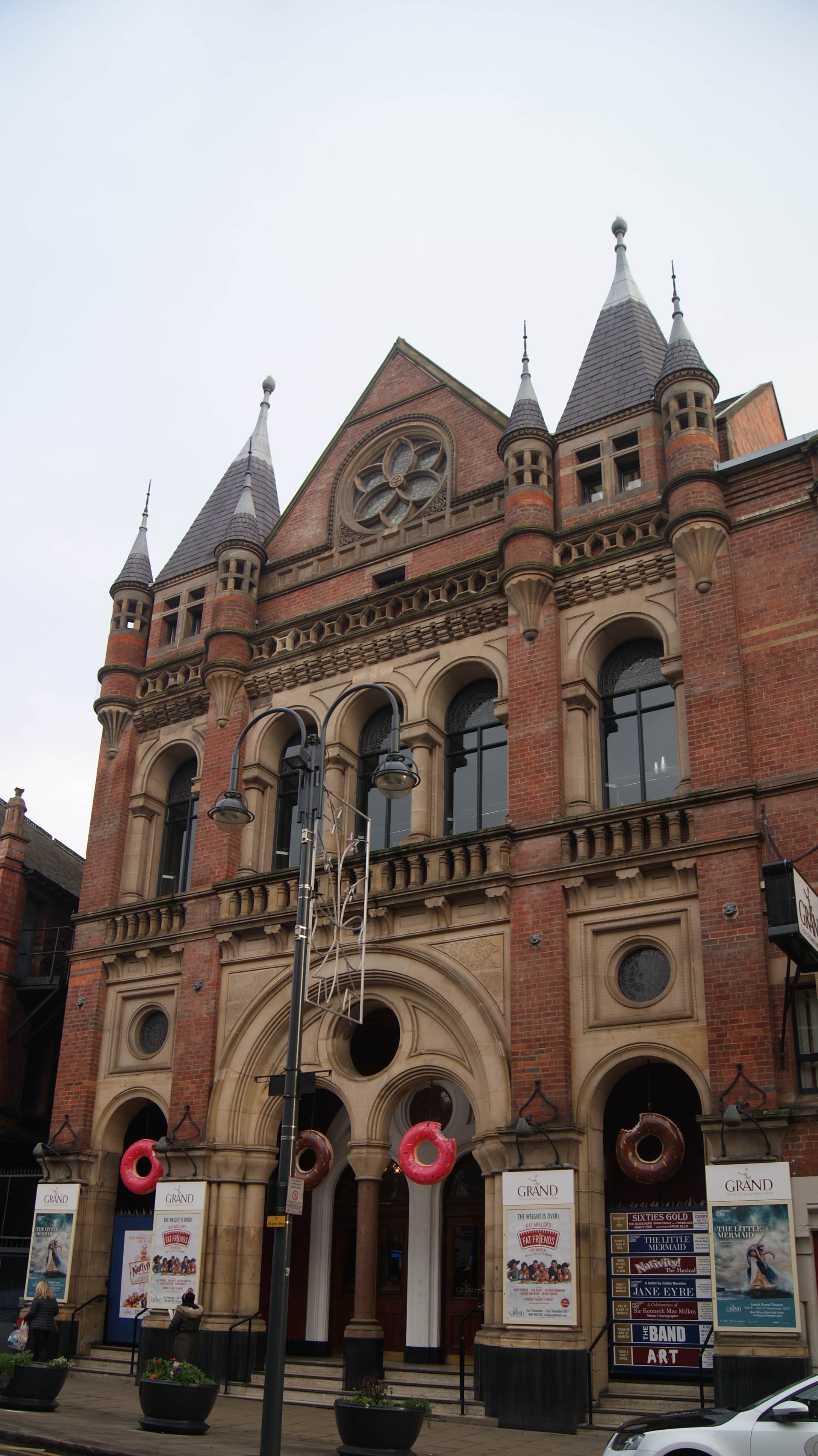 The Grand Theatre & Opera House Leeds (to give it the name it calls itself) although I and most other people around just call it the Grand Theatre is situated on New Briggate in Leeds, West Yorkshire. The building is to my mind under-rated; completed in 1878 it is larger than it looks with a capacity of 1550. The decorations are for a musical version of Kay Mellor's Fat Friends; a television series filmed and set in Leeds in the early-mid 2000s. Taken on the afternoon of Friday the 1st of December 2017.